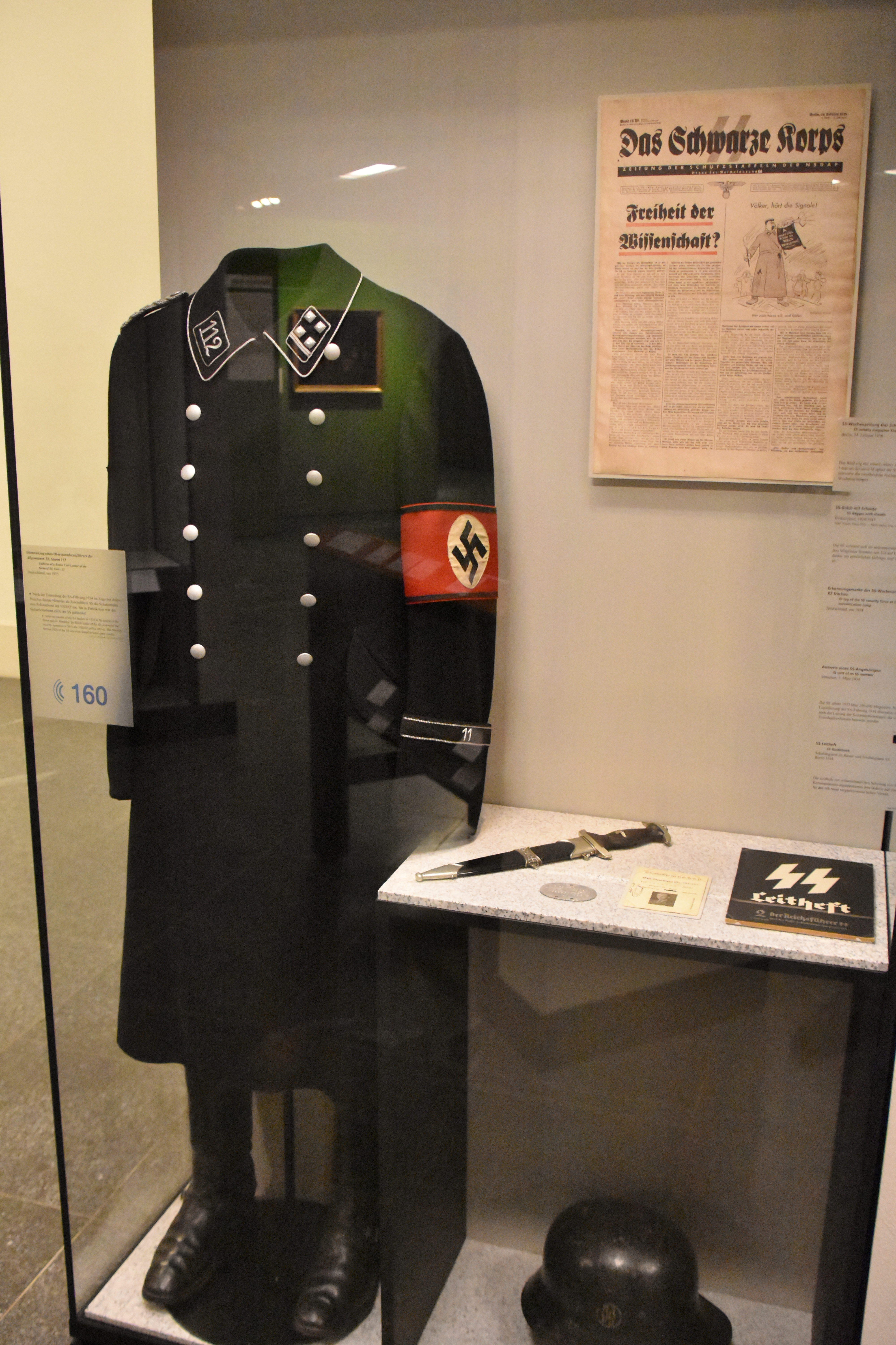 Uniform of a Senior Unit Leader (Obersturmbannführer) of the General SS (Allgemeine SS), 1935: Black Allgemeine SS overcoat/closed collar greatcoat/Feldmantel with strap on right shoulder, 112 on right collar patch, rank insignia on left, 11 on cuff title, membership swastika armband, and steel helmet. Also SS dagger, Das Schwarze Korps (SS newspaper): Freihet der Wissenschaft? ('Freedom of Science?'), and SS Leitheft 2 Der Reichsführer SS. Deutsches Historisches Museum, Berlin